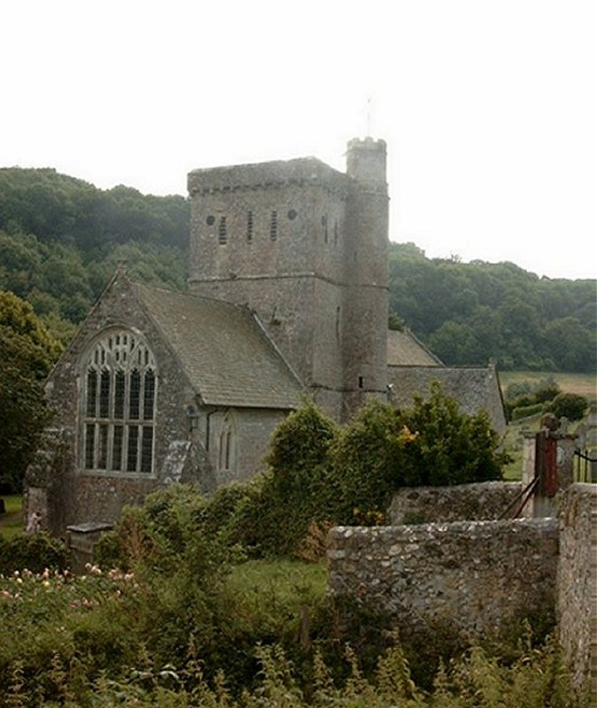 St. Winifred, Branscombe, East-Devon